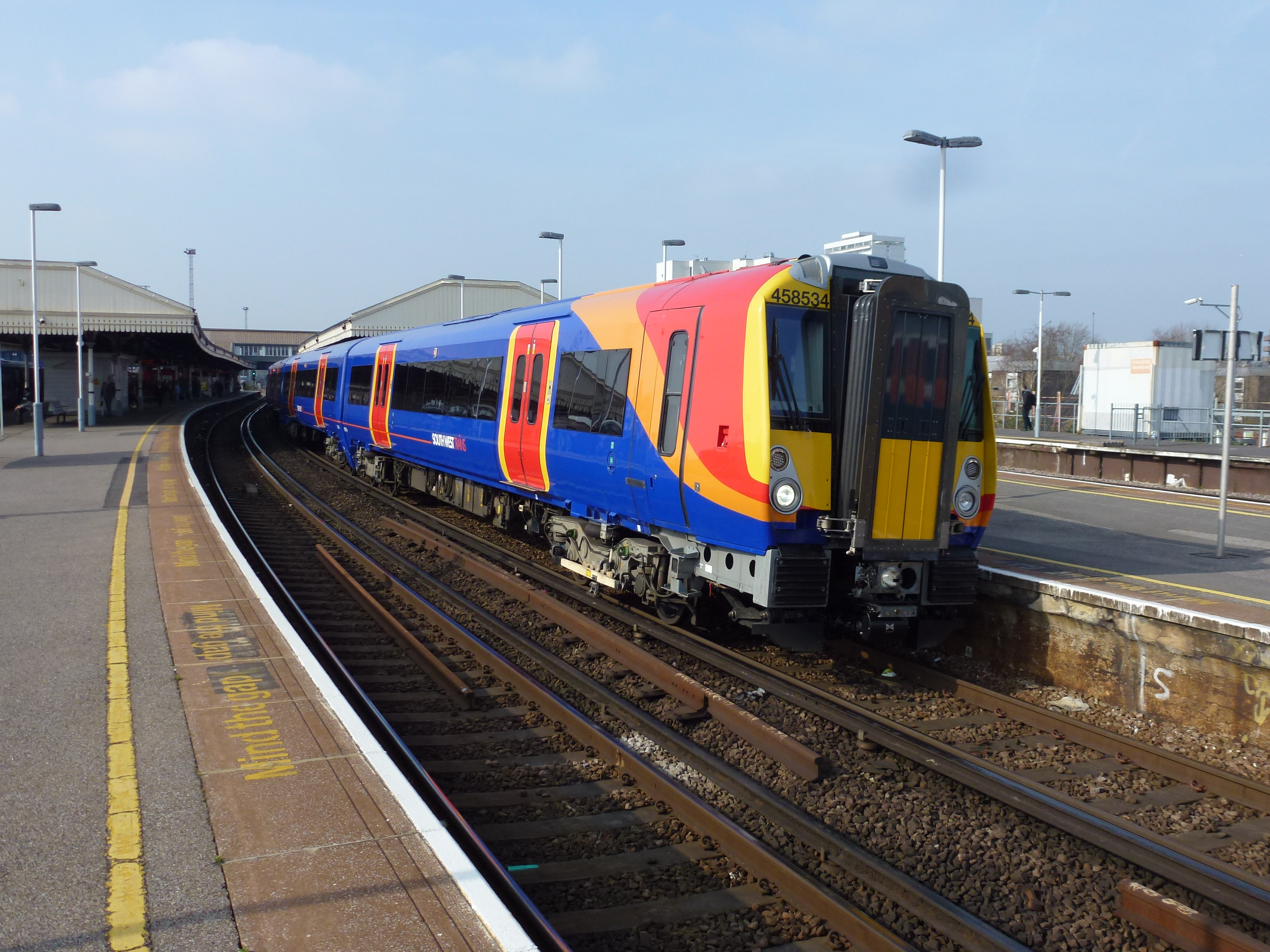 Newly modified Class 458 534 in Outer Suburban Blue at Clapham Junction, platform 4